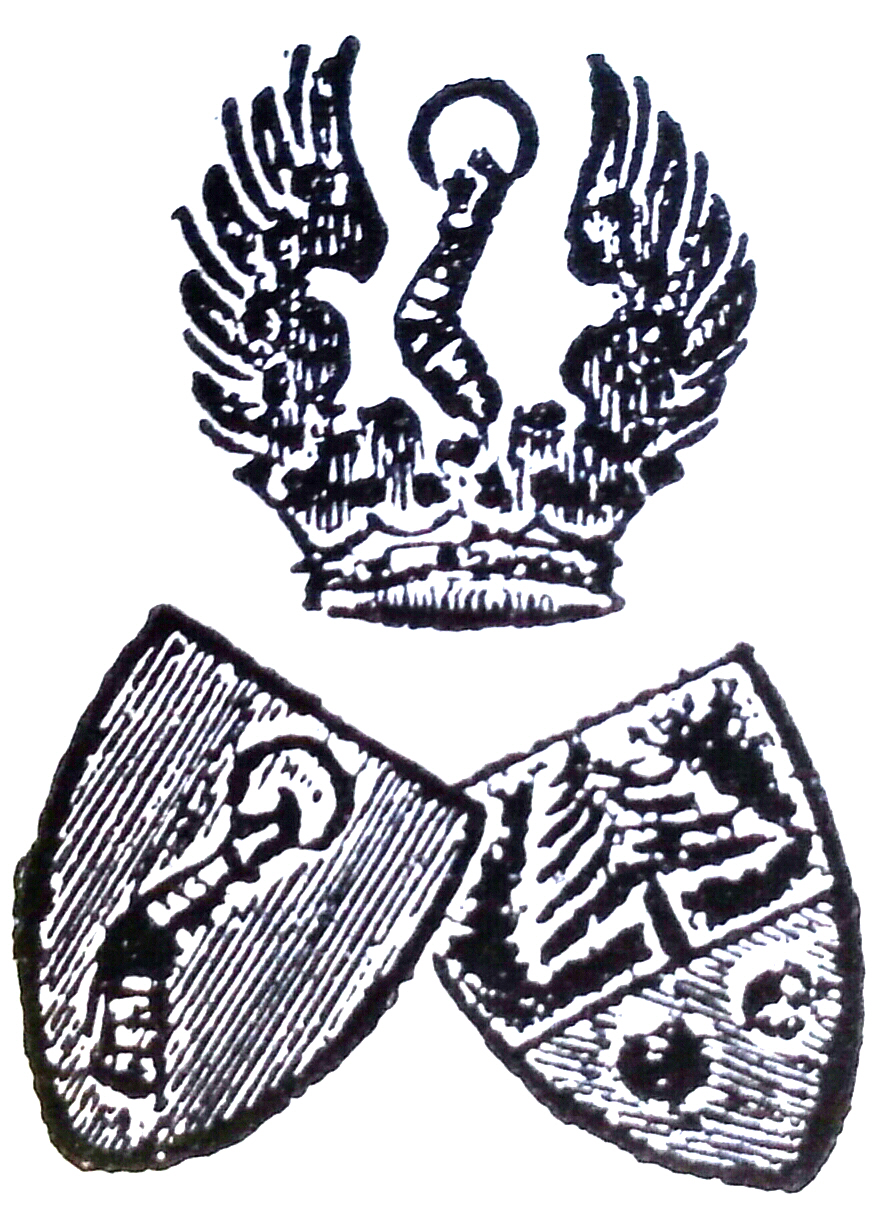 Coats of arms of the German family Göring (left) and the Swedish family von Fock (right) on the letterhead of a letter from Hermann Göring to his mother-in-law, January 1926